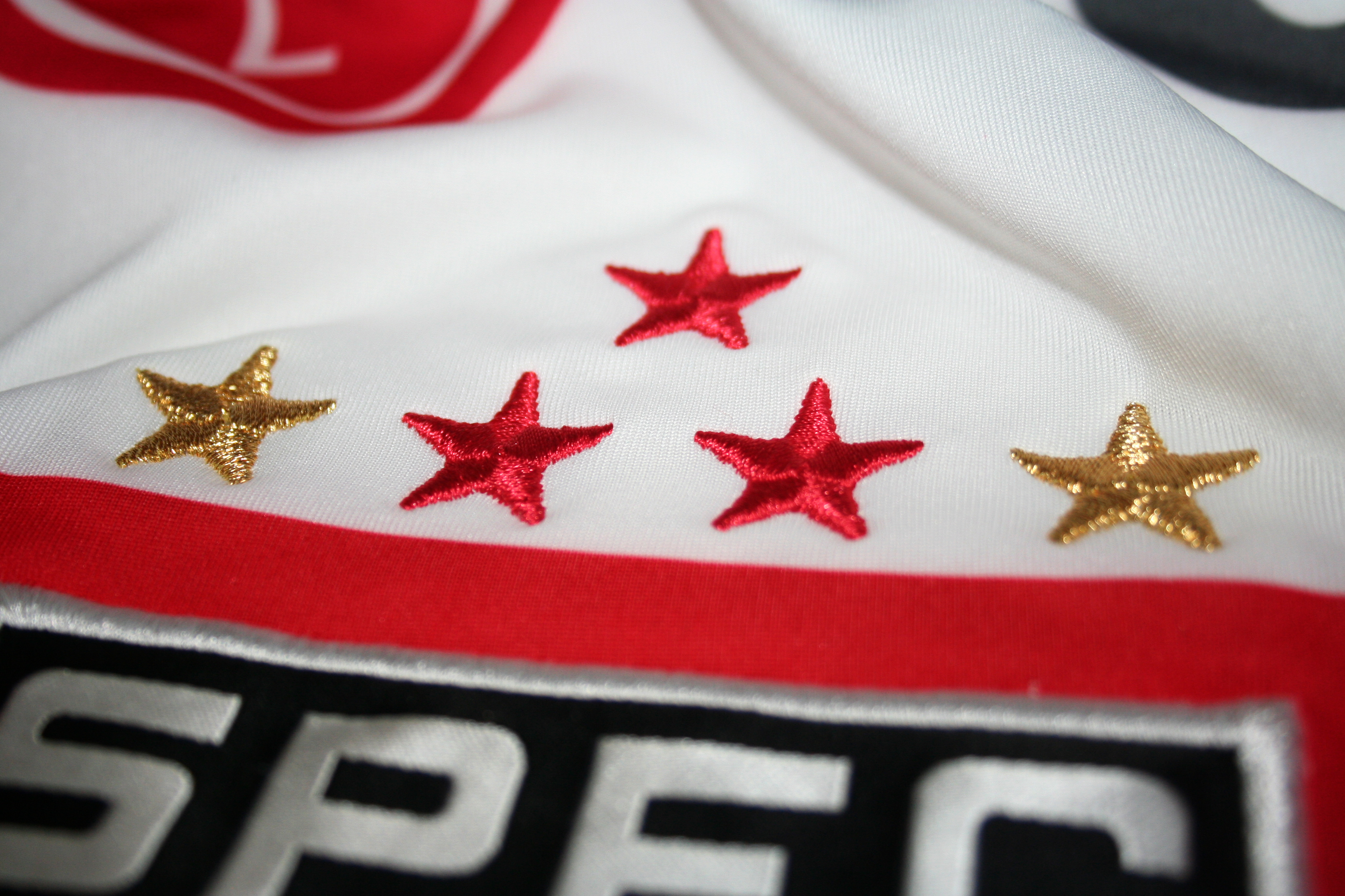 stars of the São Paulo Futebol Clube badge.